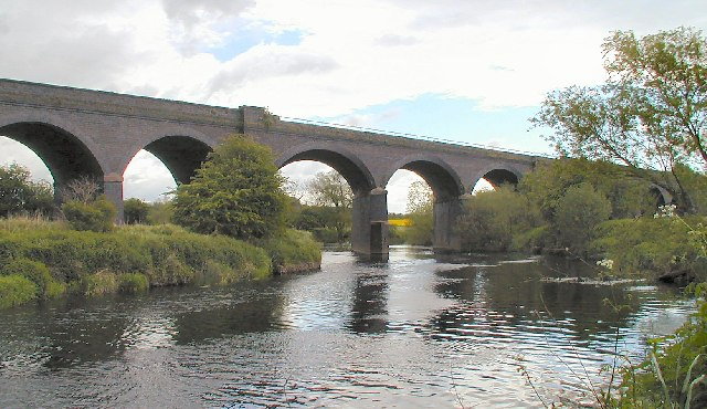 Viaduct at Stanford on Soar This carried the Great Central over the River Soar